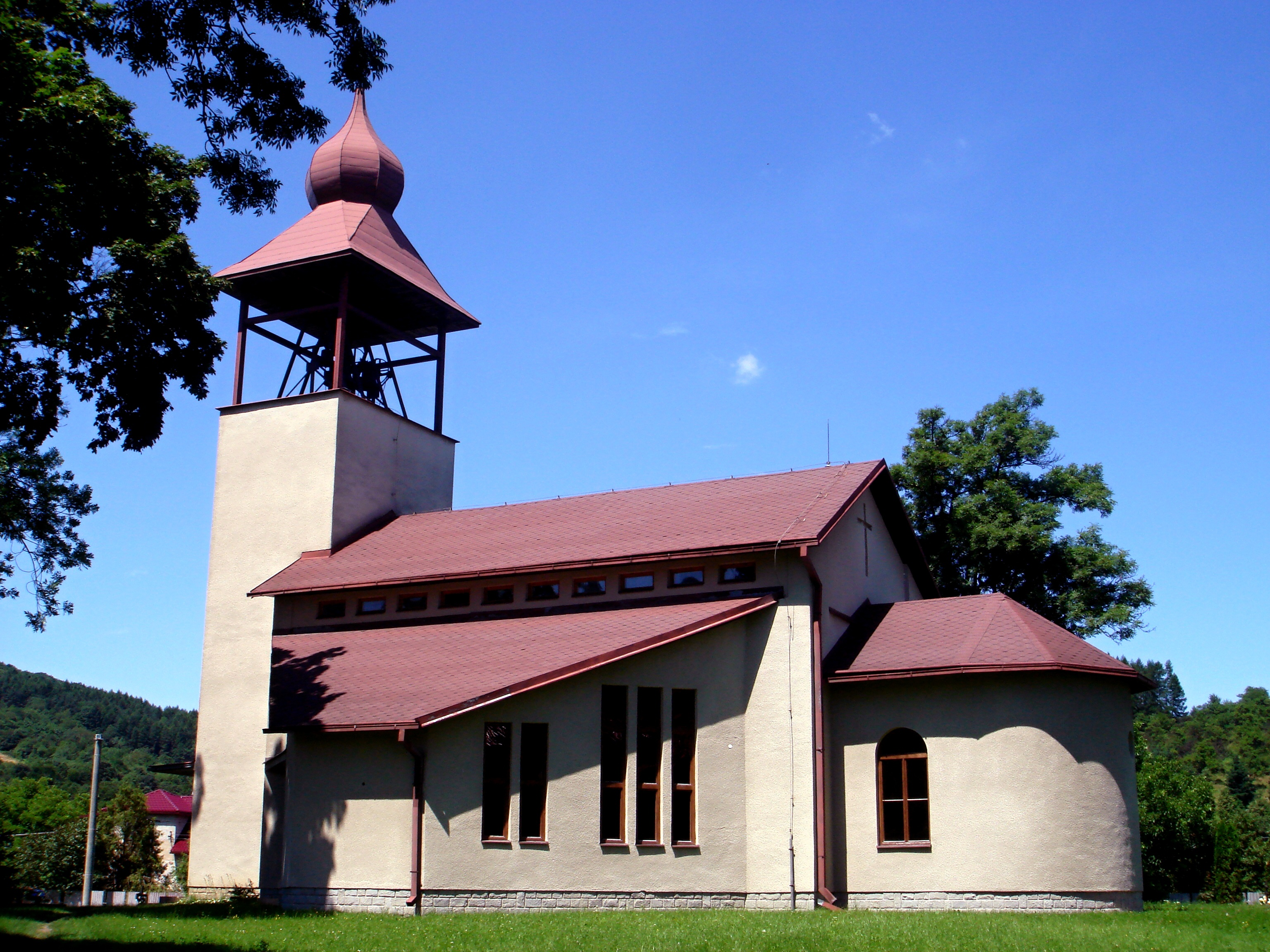 Greek Catholic church in Stakčín (Prešov Region, Slovakia).